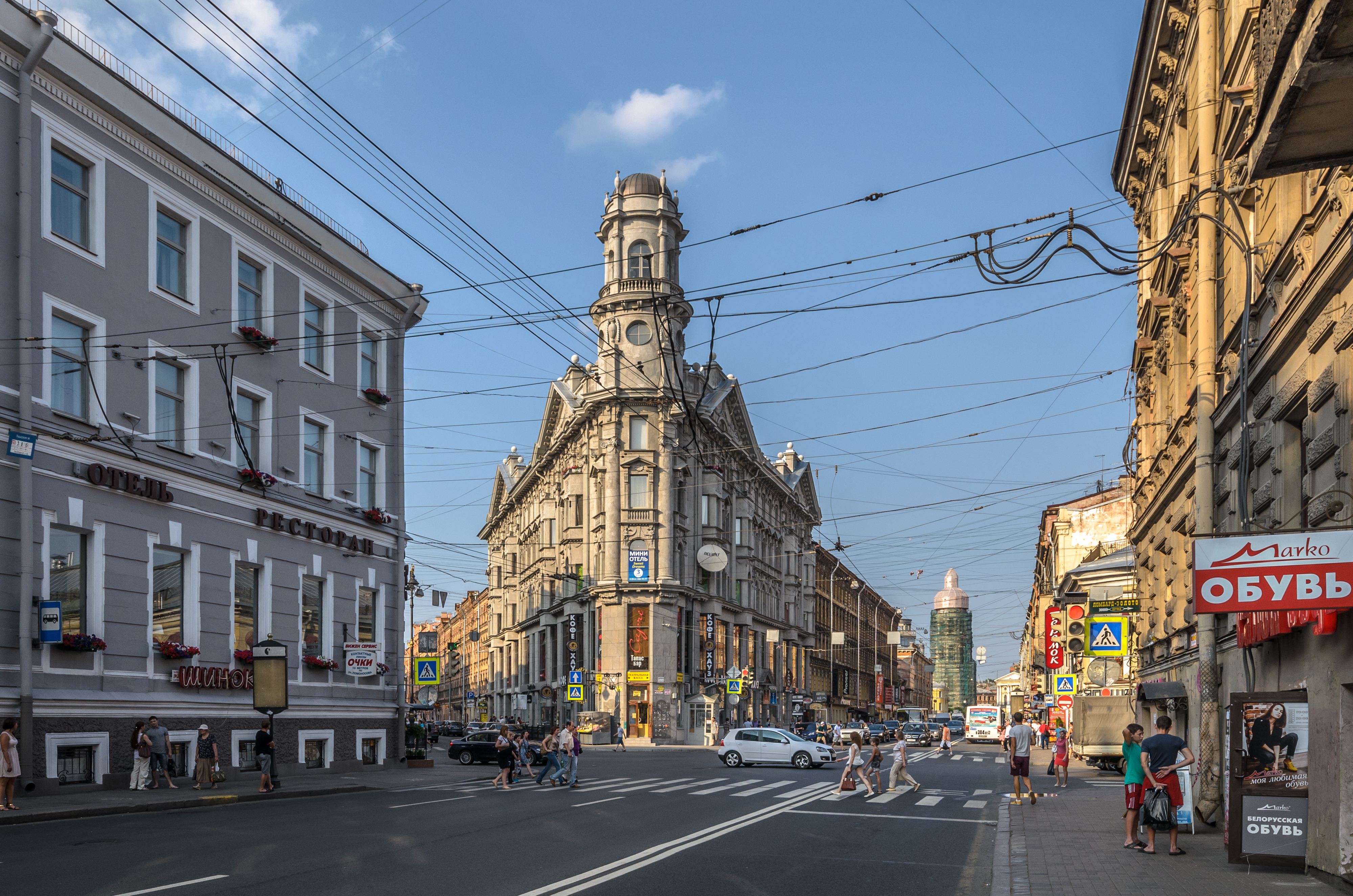 Zagorodny Avenue near "Five Corners" in Saint Petersburg